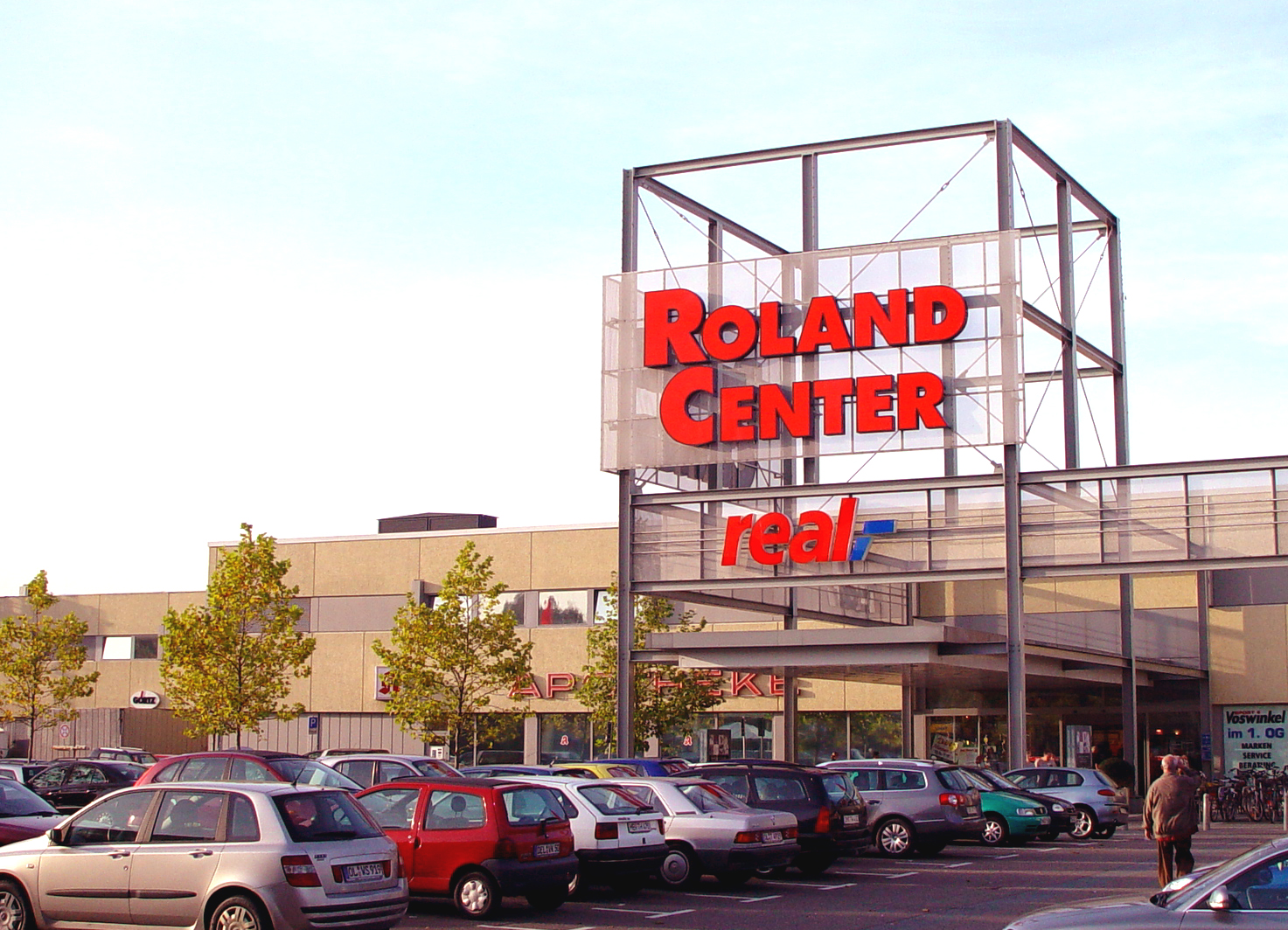 Roland-Center